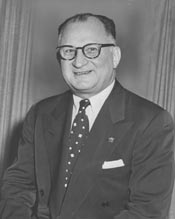 former congressman Leo Elwood Allen of Illinois.